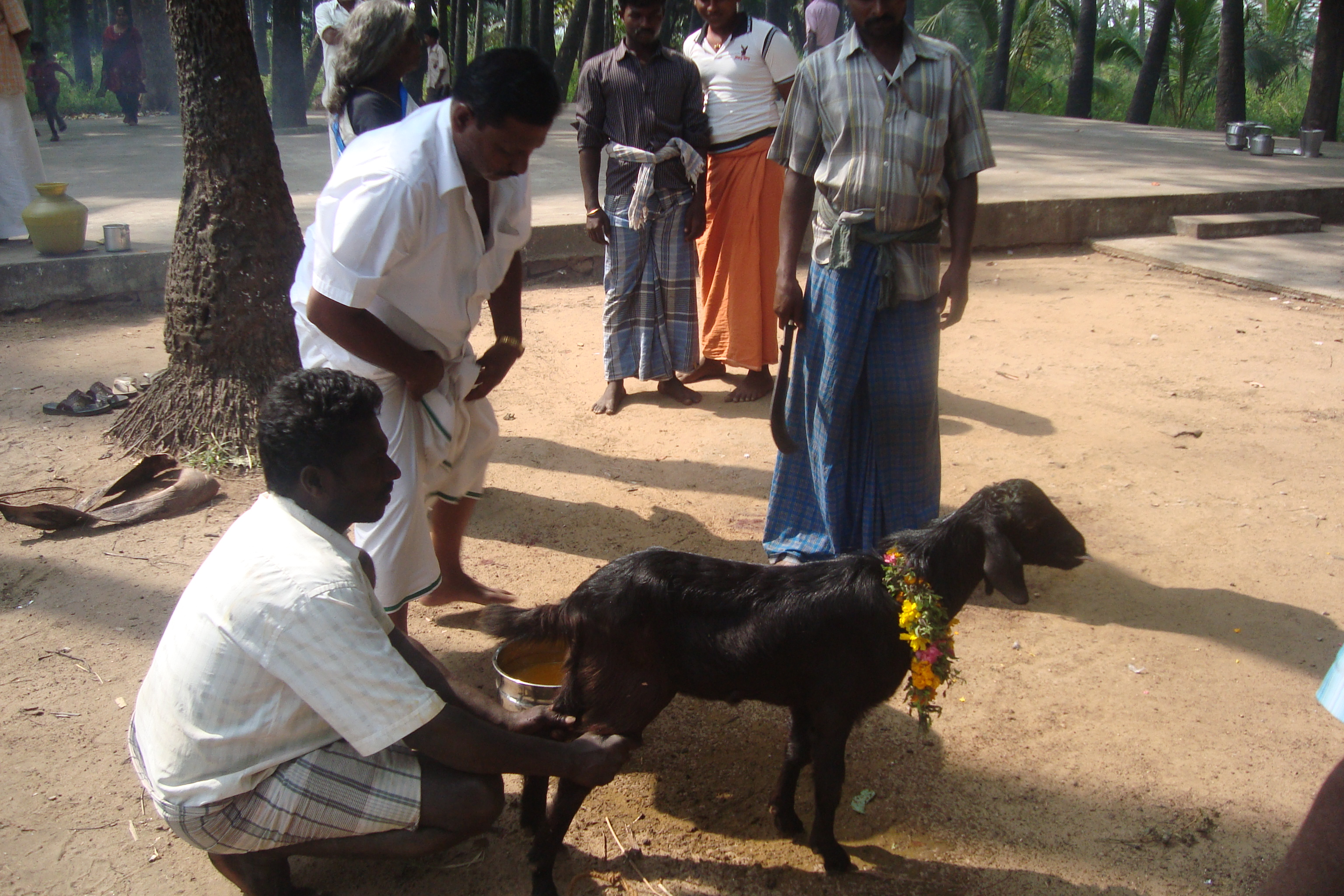 Prepare to sacrificial in hindu temple Unknown